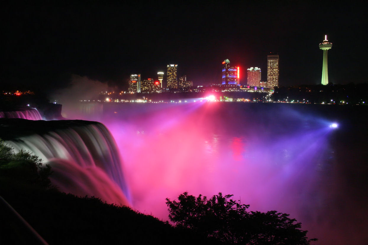 Niagara Falls (American Falls) From US Side